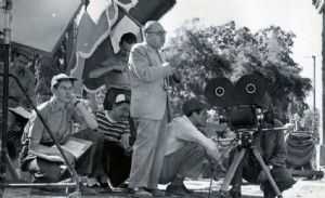 Chilean/Argentine director Carlos F. Borcosque on set of El alma de los niños (1951)